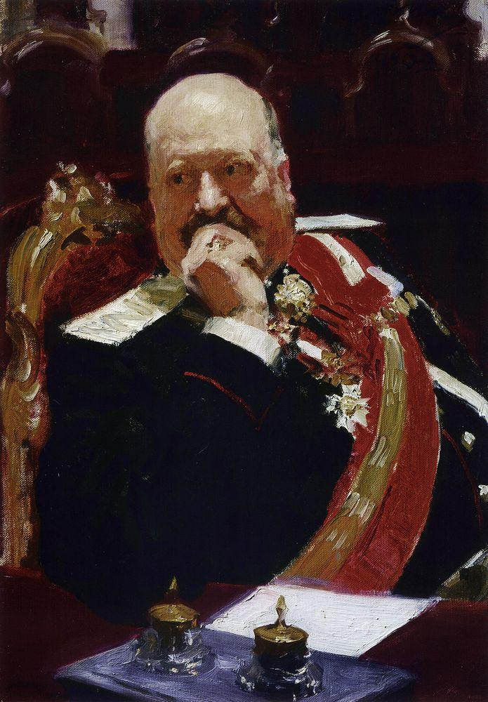 Portrait of Vice Minister of the Interior, cavalry general and member of State Council, Count Aleksey Pavlovich Ignatiev. Study for the picture Formal Session of the State Council. Oil on canvas. 89 × 62.5 cm. The State Russian Museum, St. Petersburg.